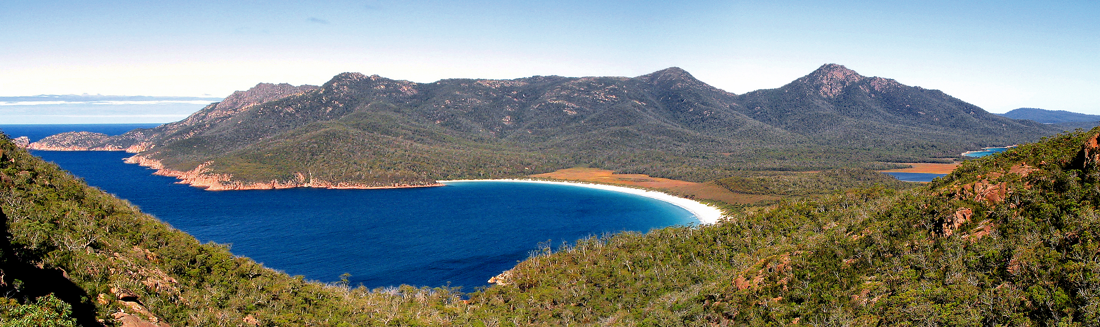 SOURCE INFO Original images for pano were captured using a CANON A75 PowerShot 3.2MP digital compact point & shoot camera. PROCESS INFO Panorama created by stitching together 3 x standard 6x4 sized hand-panned images using Microsoft Image Composite Editor (ICE). Post-processed using Adobe Photoshop Creative Suite 8.0.